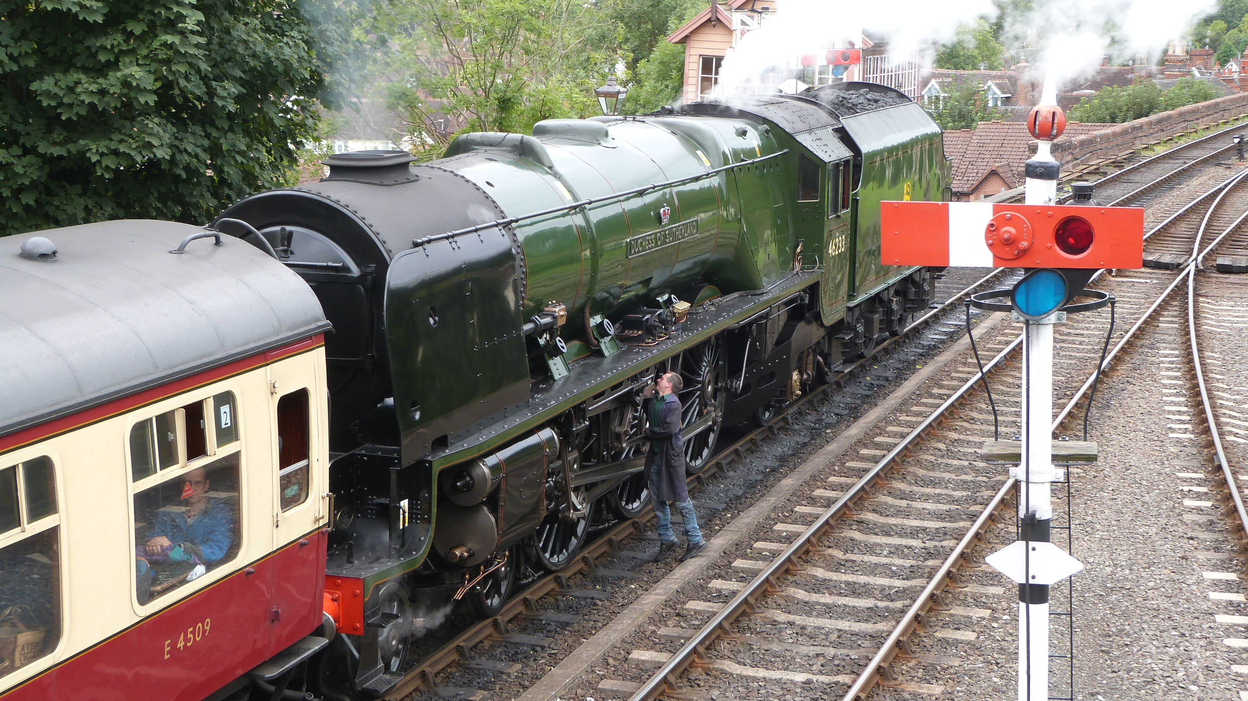 LMS Princess Coronation Class 6233 Duchess of Sutherland 6233 was built in July 1938. She acquired a double chimney in March 1941 and because of drifting smoke acquired smoke deflectors in September 1945. With the creation of British Railways she was given her BR number 46233 in October 1948 and repainted in BR Brunswick green livery in 1952.